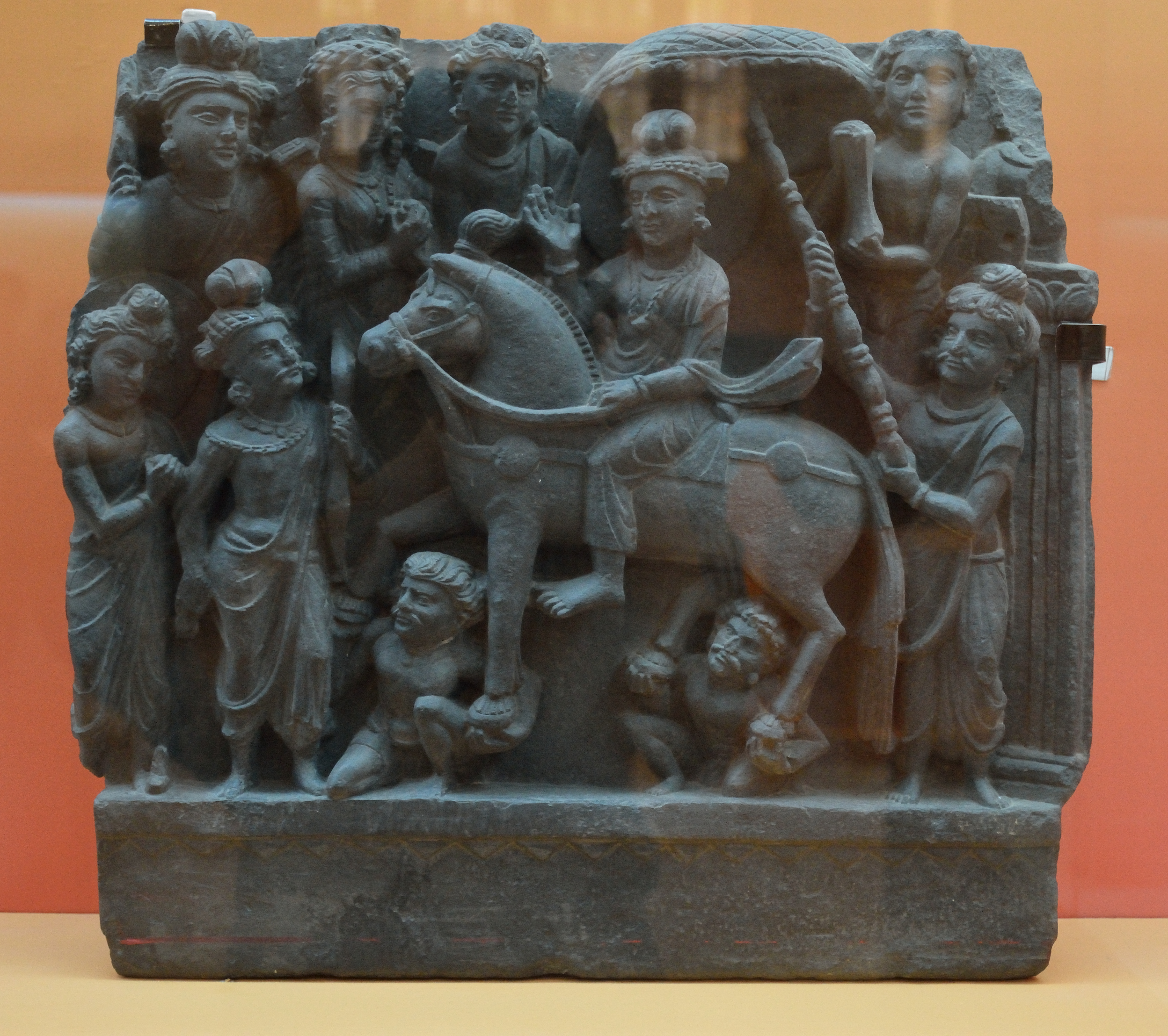 This photograph has been taken during the 'Indian Buddhist Art' exhibition that organised by the Indian Museum, Kolkata with 91 rare Buddhist artifacts comprising sculptures and manuscripts at its two different halls to celebrate 202nd anniversary of the museum. This exhibition was previously shown to China, Japan, Singapore and New Delhi also between September 2014 and December 2015. More details can be found here.